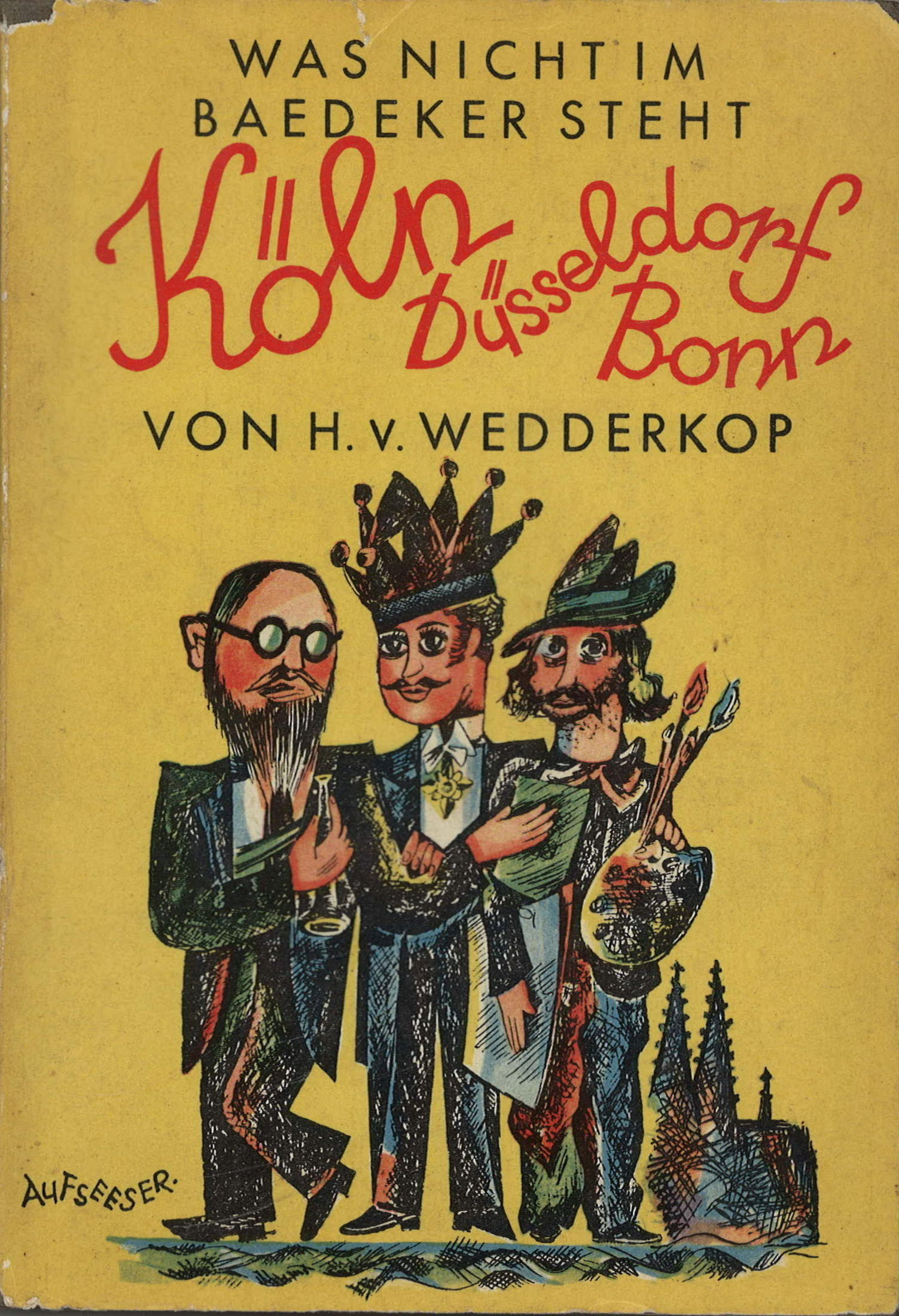 Book cover of: Was nicht im Baedeker steht. München